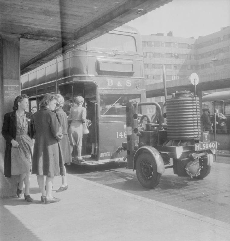 Petrol Substitutes in USE For Public Transport in Leeds, England C 1943 A bus using a petrol substitute at the bus station in Leeds, c 1943. Clearly visible is one of the containers for synthetic fuel, which is pulled along behind the bus like a trailer.